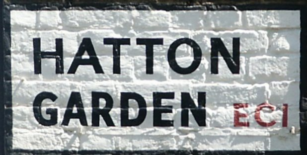 Painted on wall road sign of Hatton Garden, London